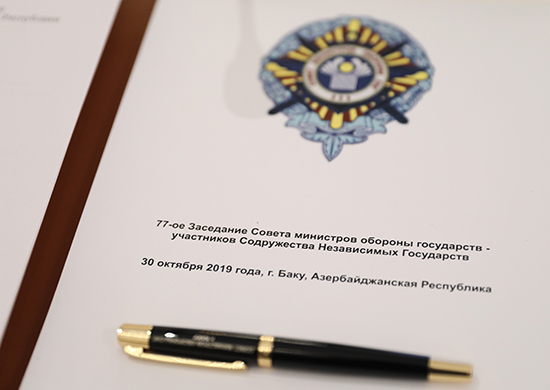 Decisions adopted at a meeting of the Council of Defence Ministers of the CIS member States are aimed at strengthening common security